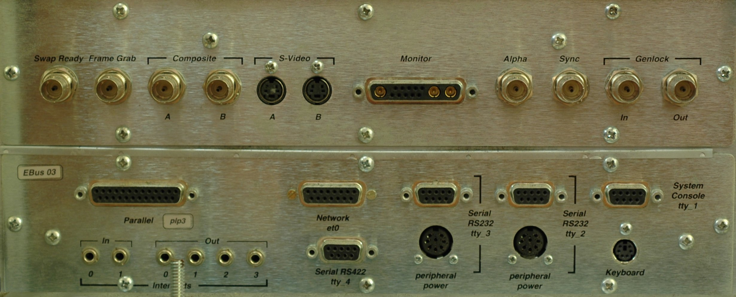 IO Ports on an SGI Onyx workstation. From the collection of the RCS/RI.